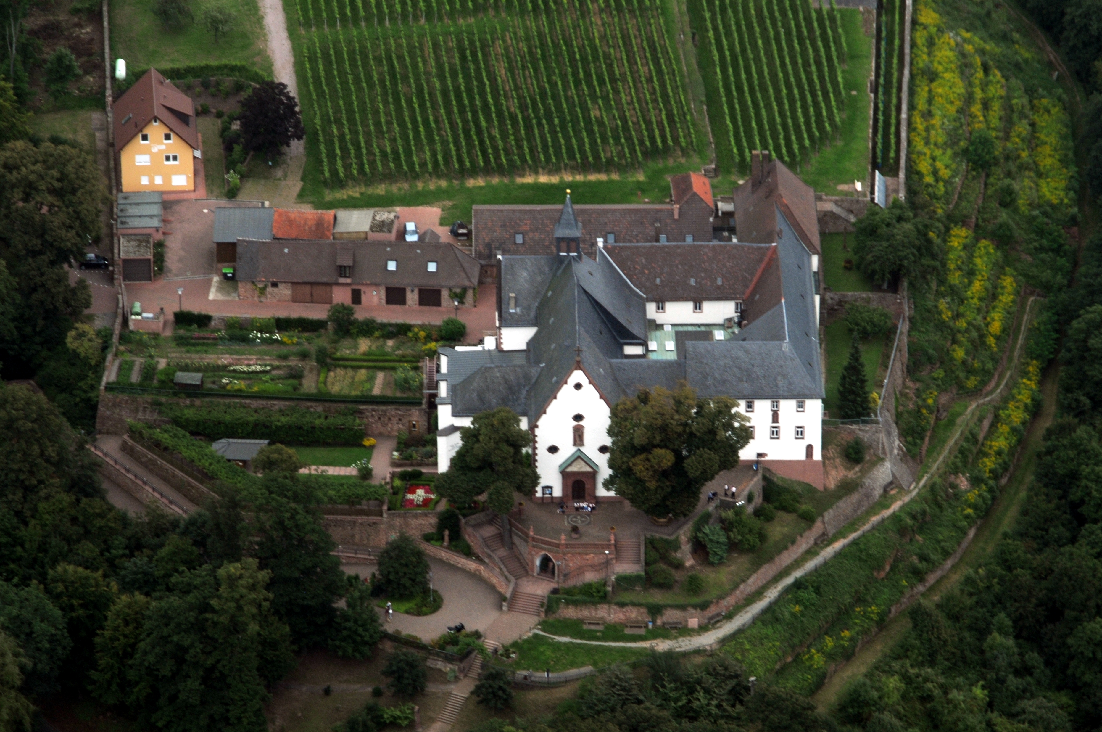 Monastery Engelbert, Grossheubach, Kleinheubach, Bavaria, Germany, aerial photograph